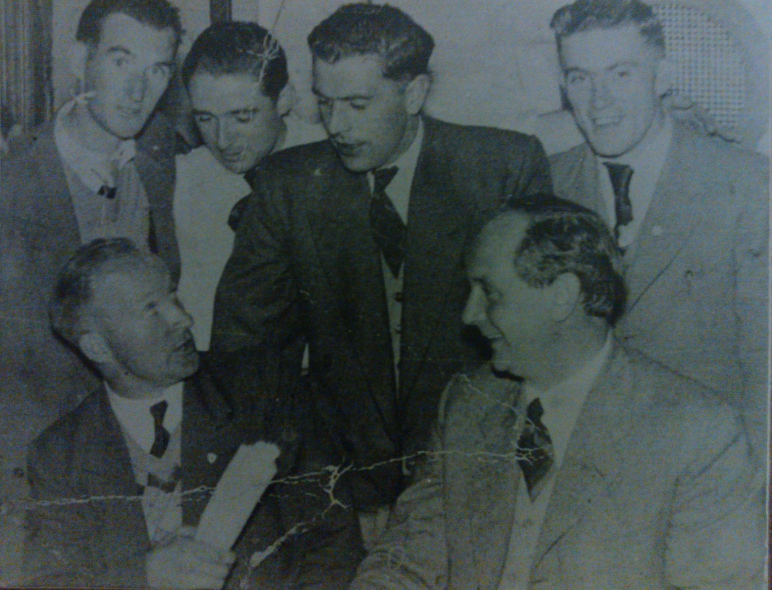 Photo of Derry Hayes in conversation with Christy Ring and Jack Lynch after the 1954 all ireland final.